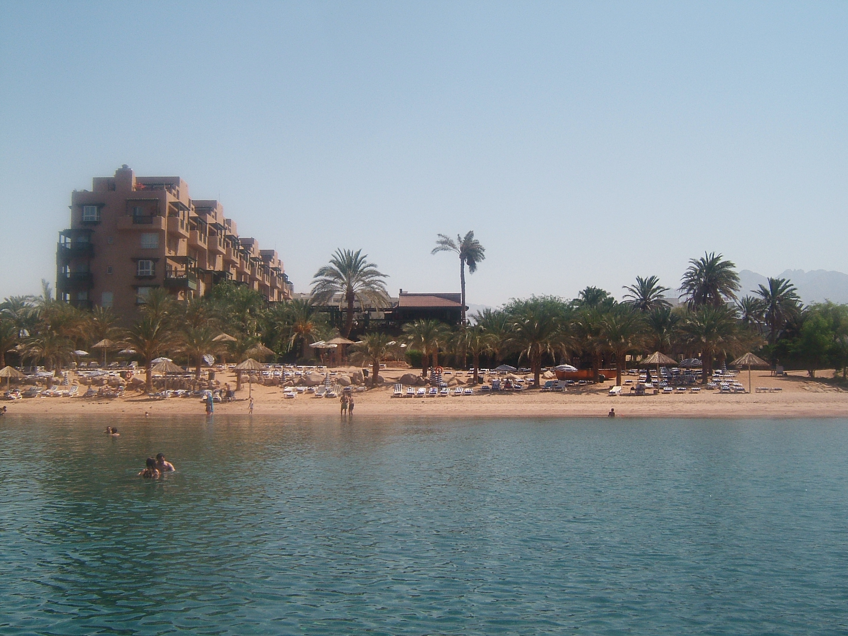 Aqaba resort beach in Jordan.